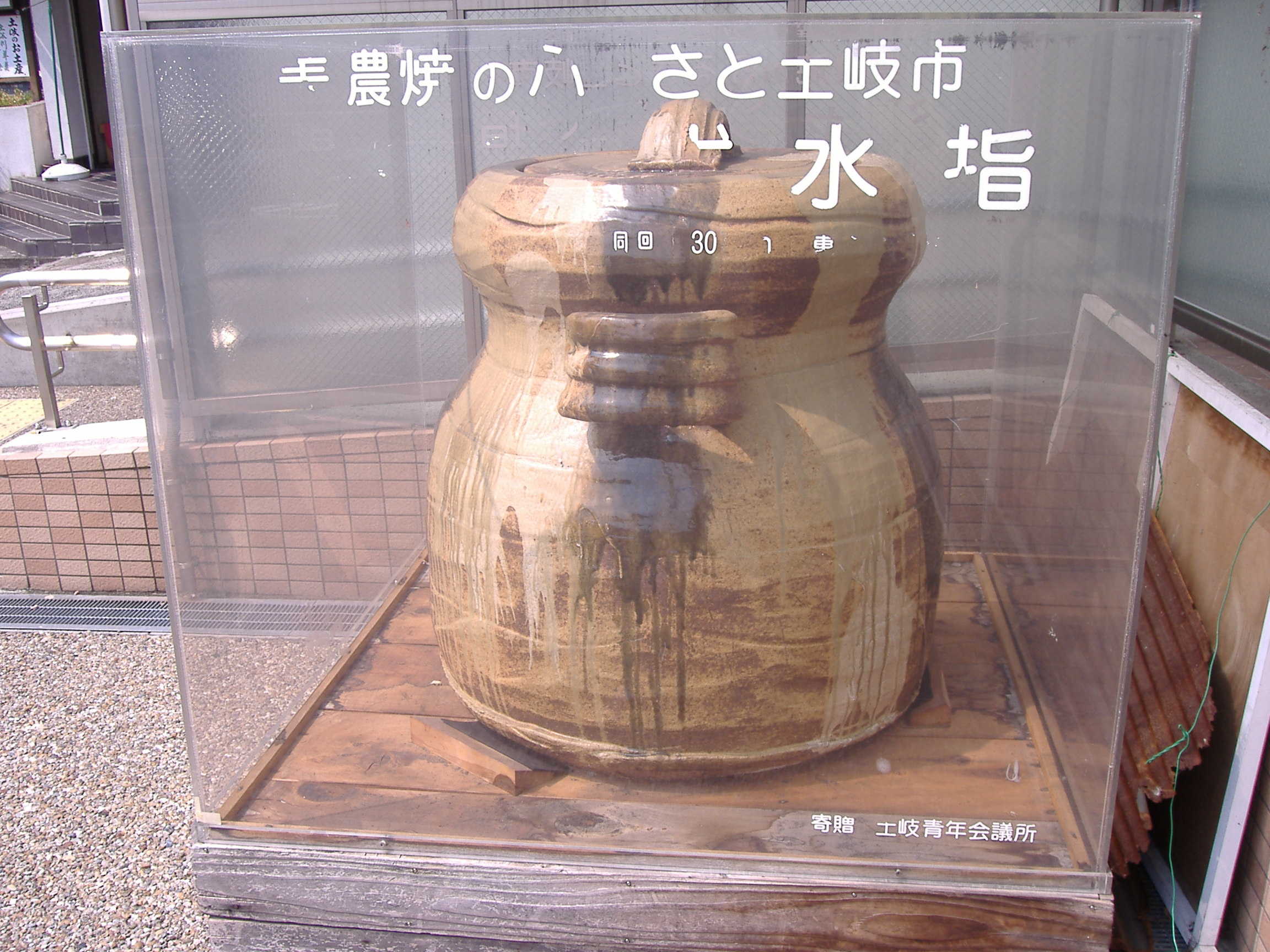 Huge Mino-yaki (Mino ceramic ware) teapot or mizusashi (water jar) at Tokishi Station on Chuo Main Line